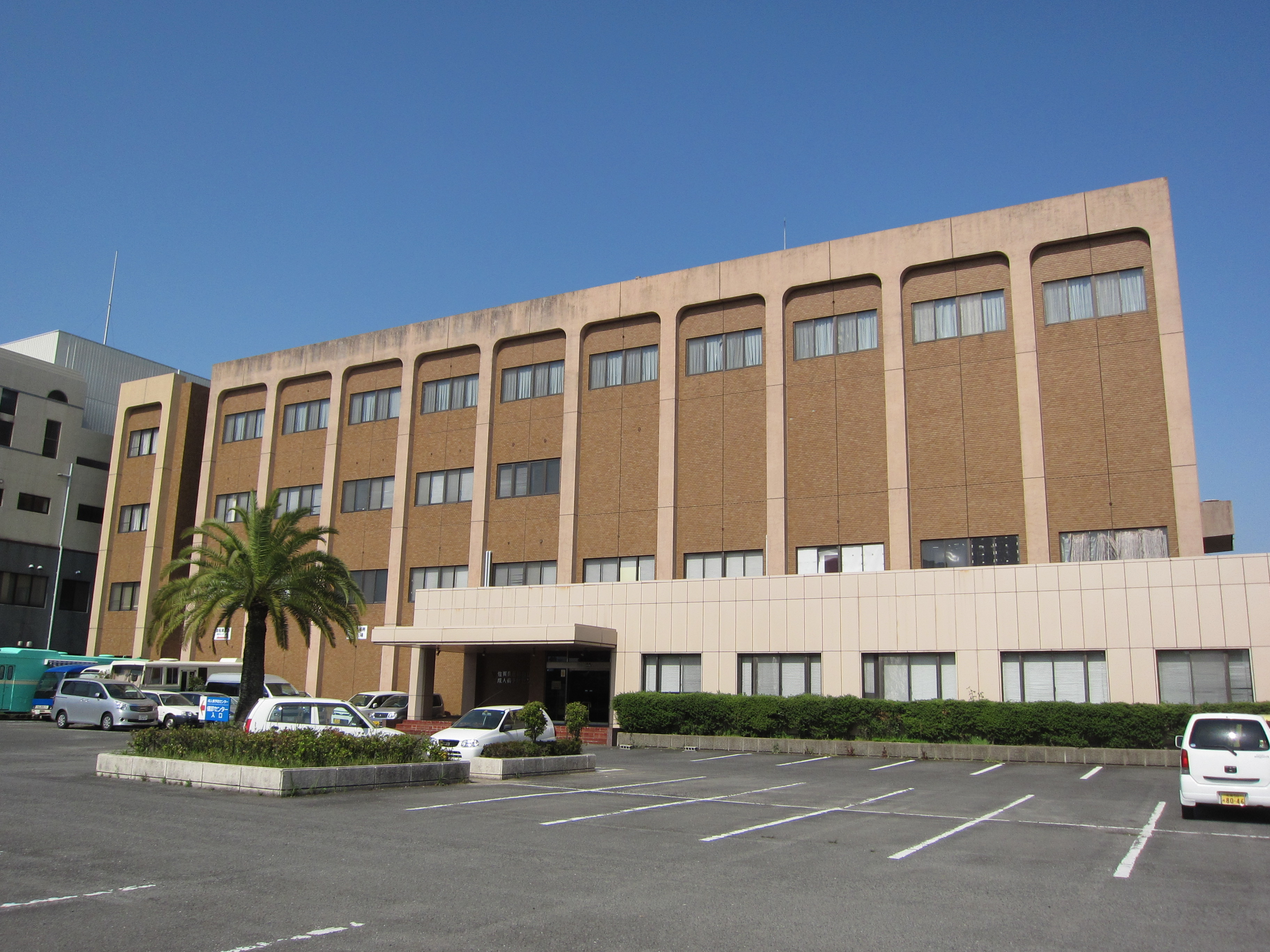 Saga Medical Credit Union